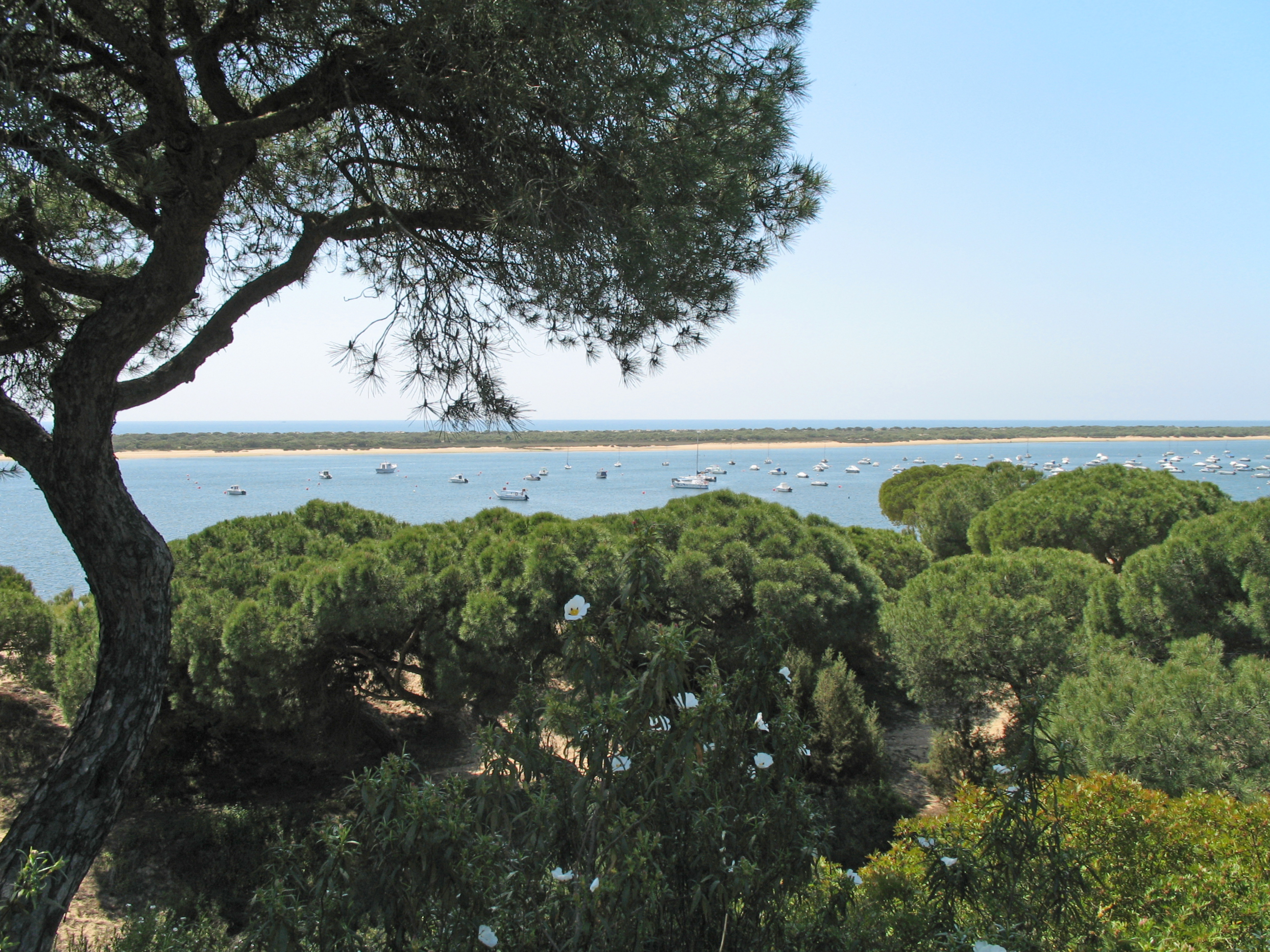 El Rompido (Province of Huelva, Spain): natural park of the Marismas del Río Piedras y Flecha de El Rompido